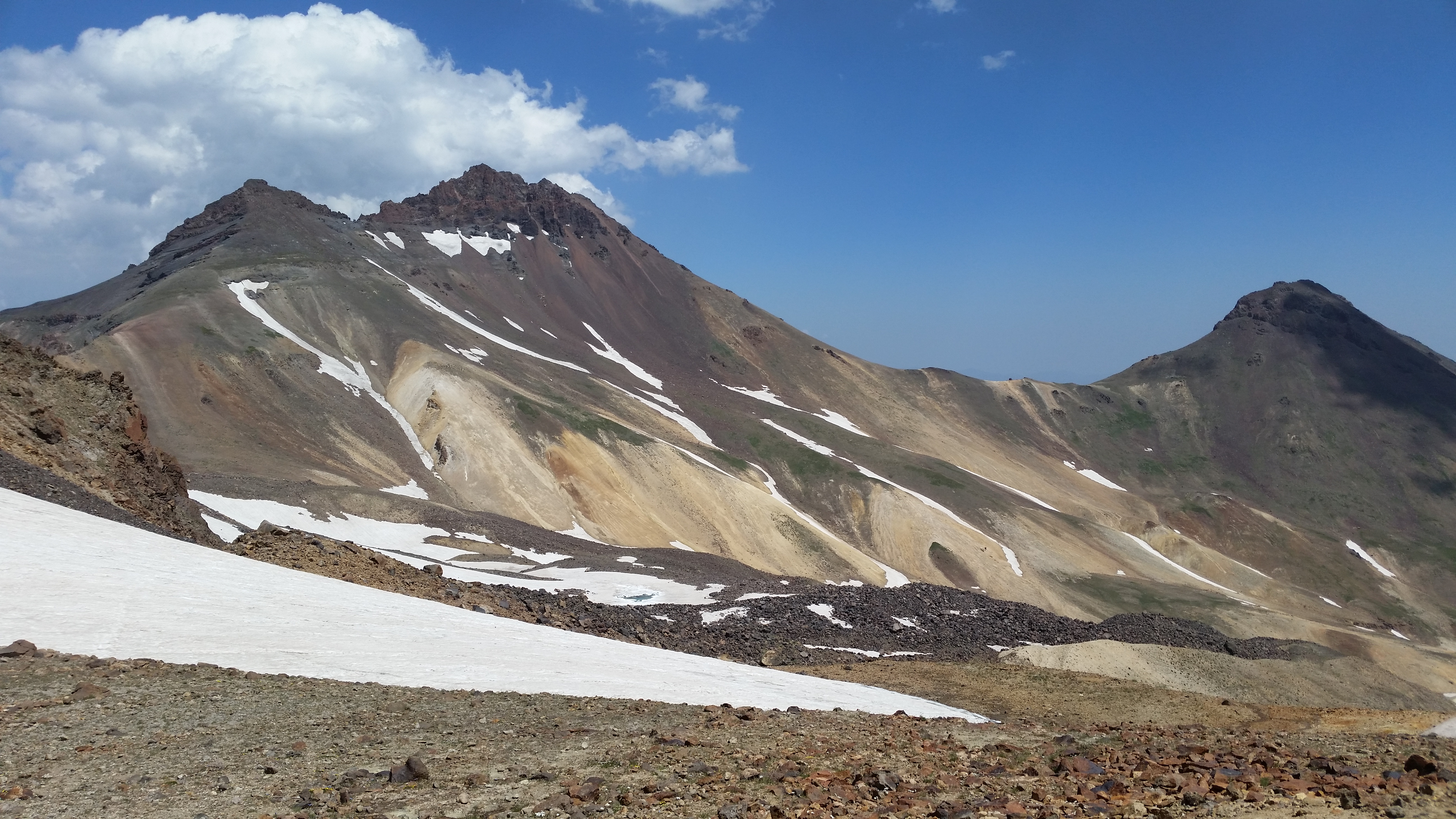 Aragats Northern Pick